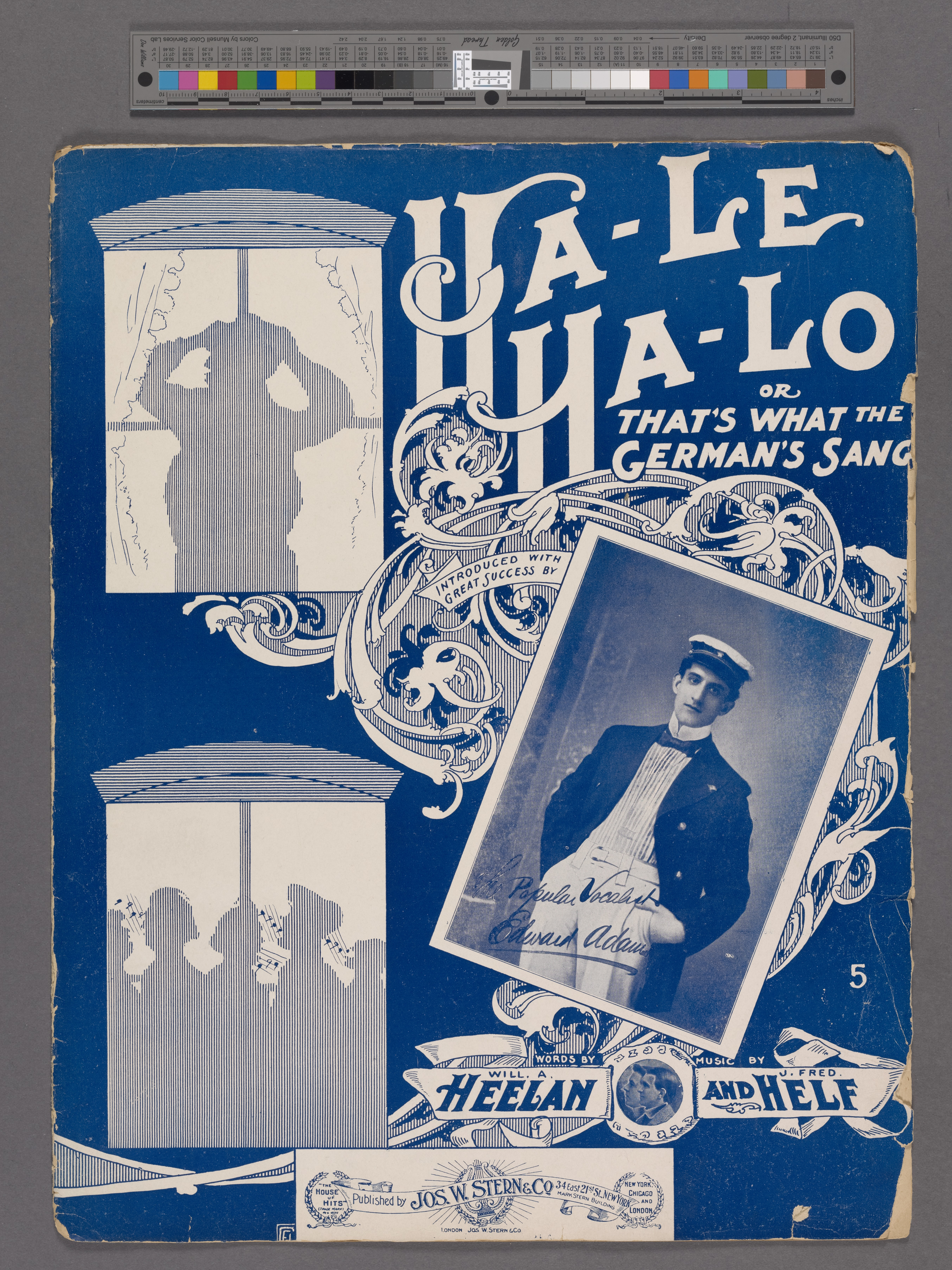 On cover: Photograph of Edward Adams. On cover: Silhouettes in windows. [illustration] Statement of responsibility : words by Will A Heelan ; music by J. Fred Helf.